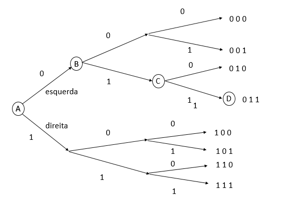 Path to the final destination.